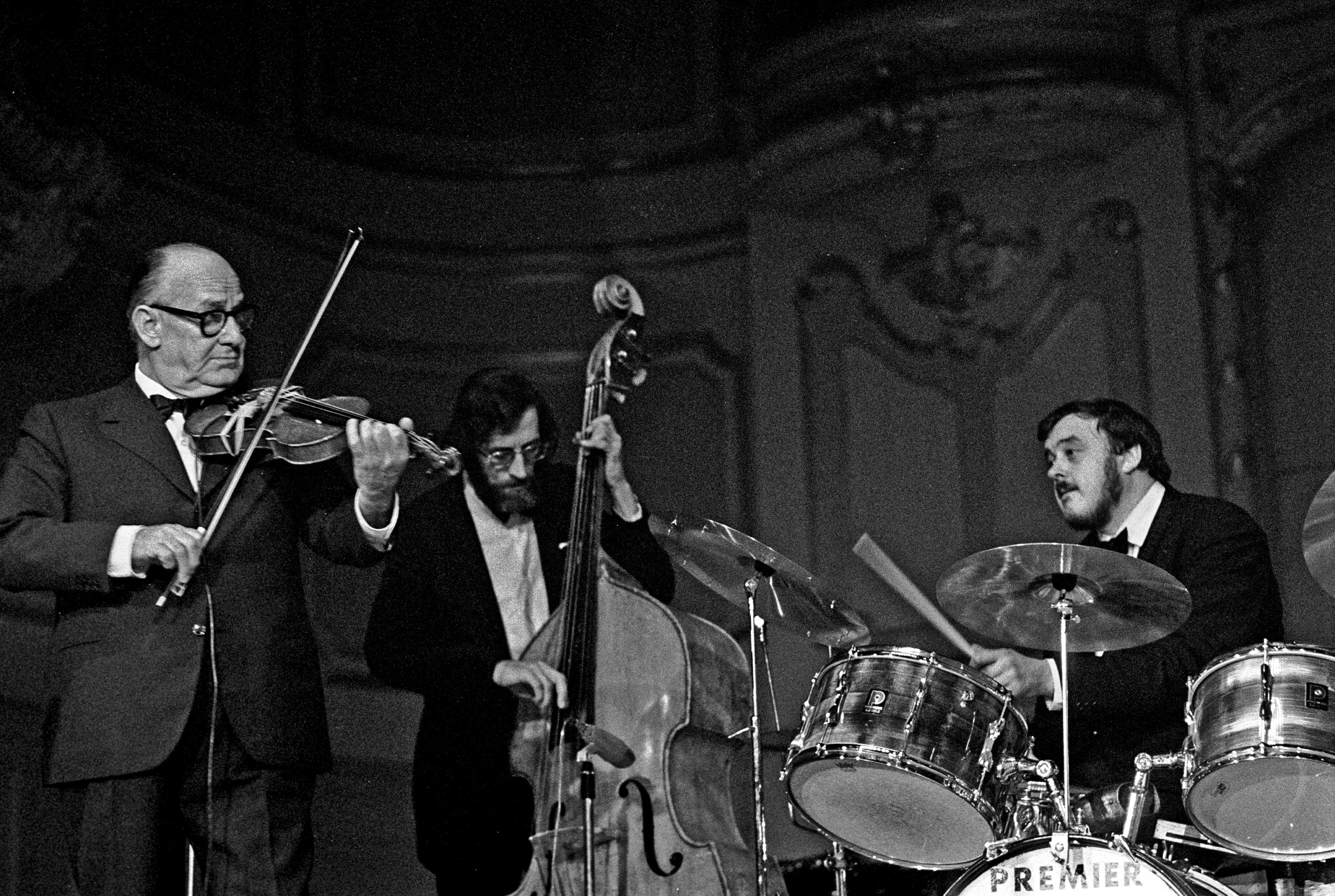 Jazz violinist Joe Venuti performing in Hamburg, 1971.